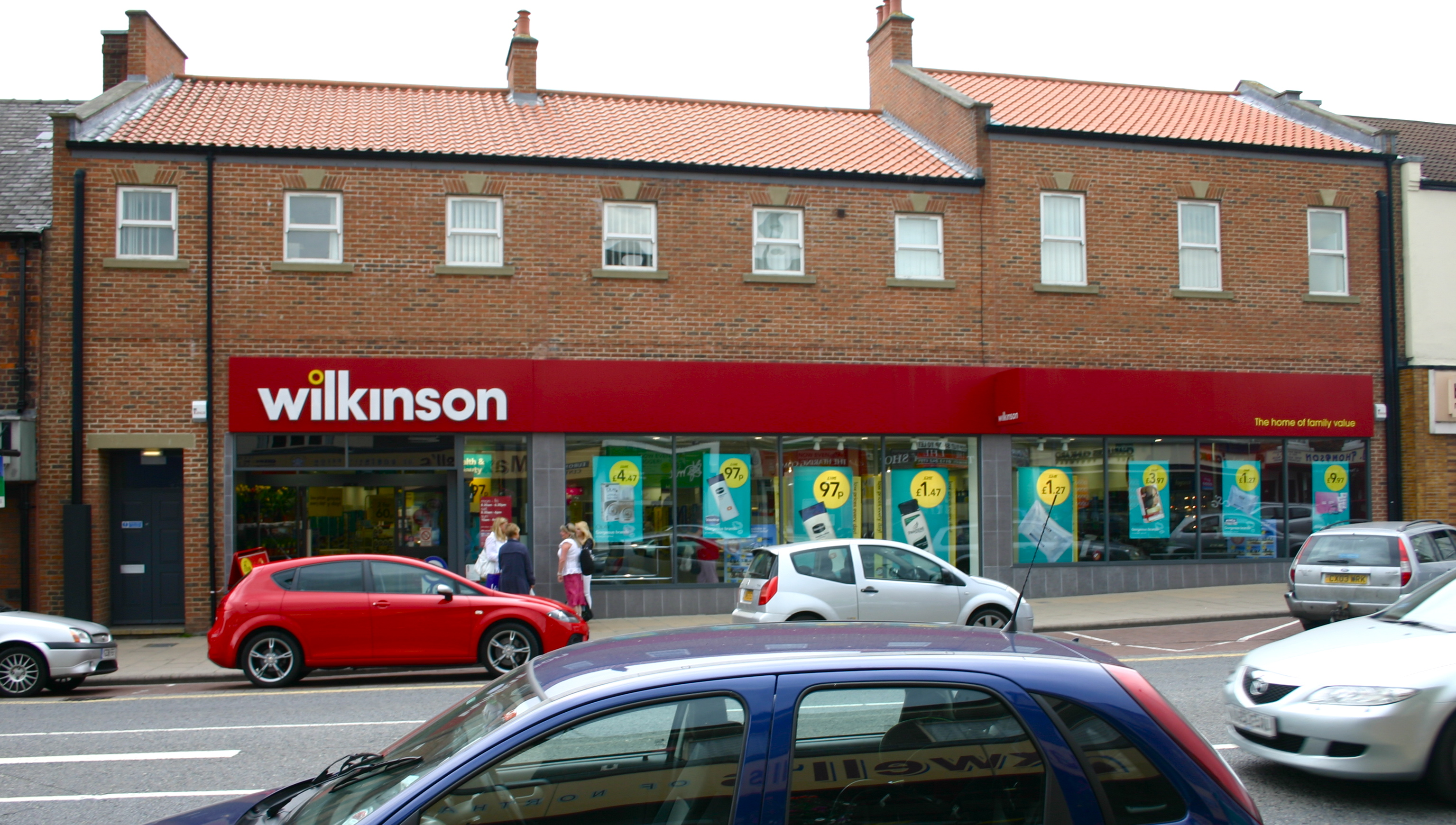 Wilkinson, Northallerton. This building used to be occupied by Woolworths until the company closed all its stores.